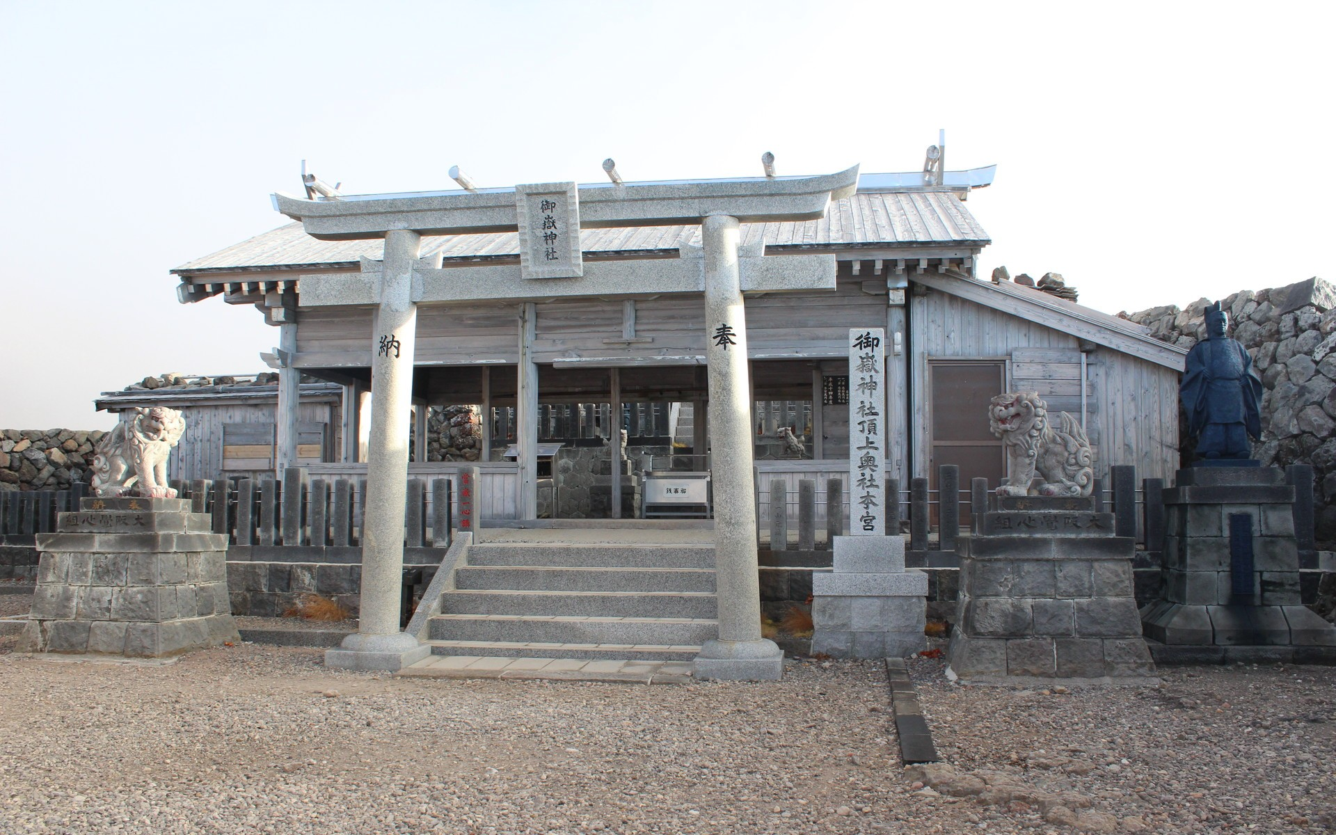 Mount Ontake Shinto shrines on Otaki peak of Mount Ontake, Japan.